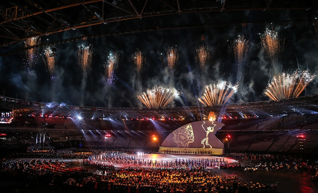 2018 Asian Para Games flame lit-off